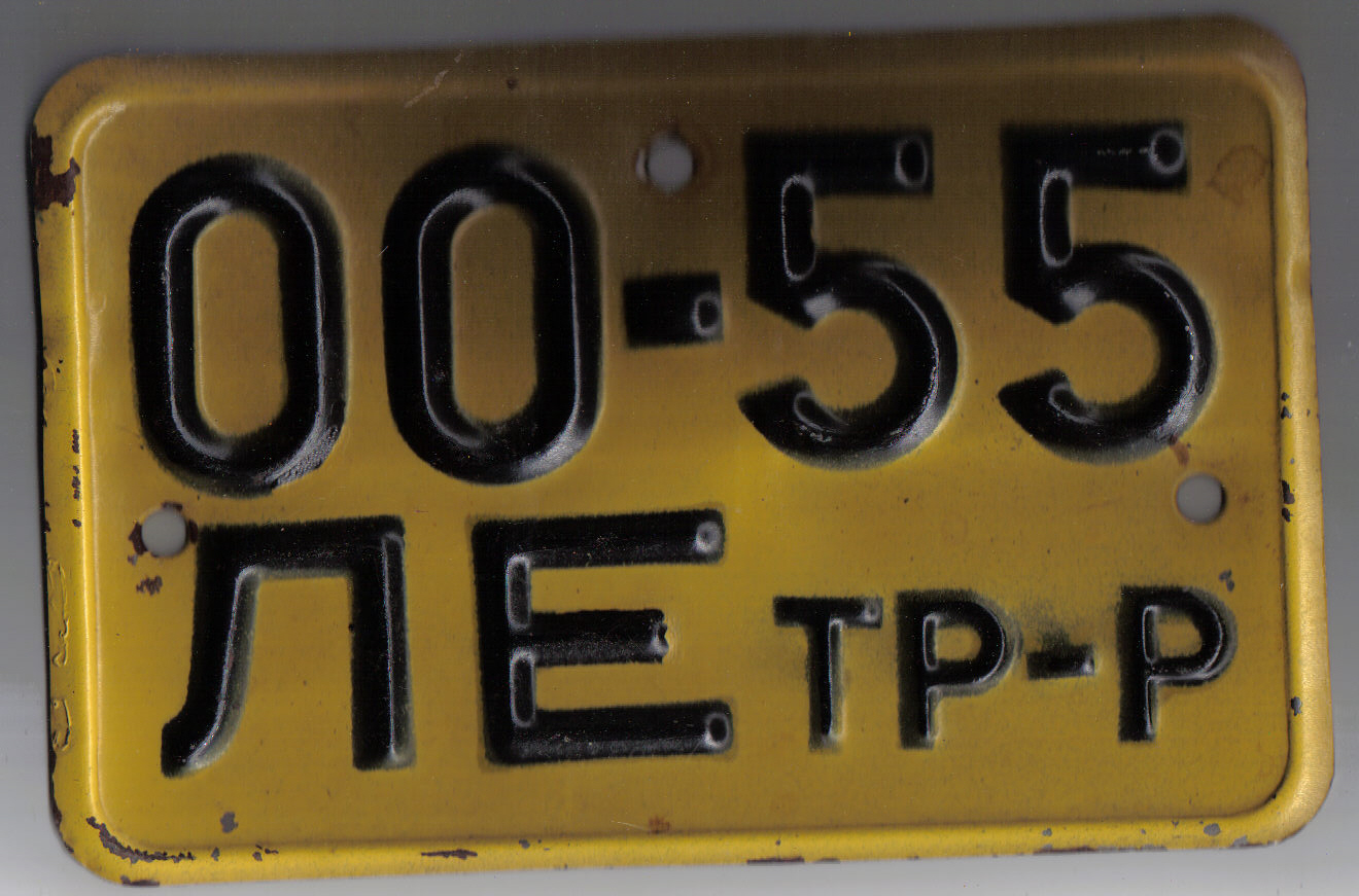 USSR RUSSIAN SFSR Leningrad AGRICULTURAL TRACTOR